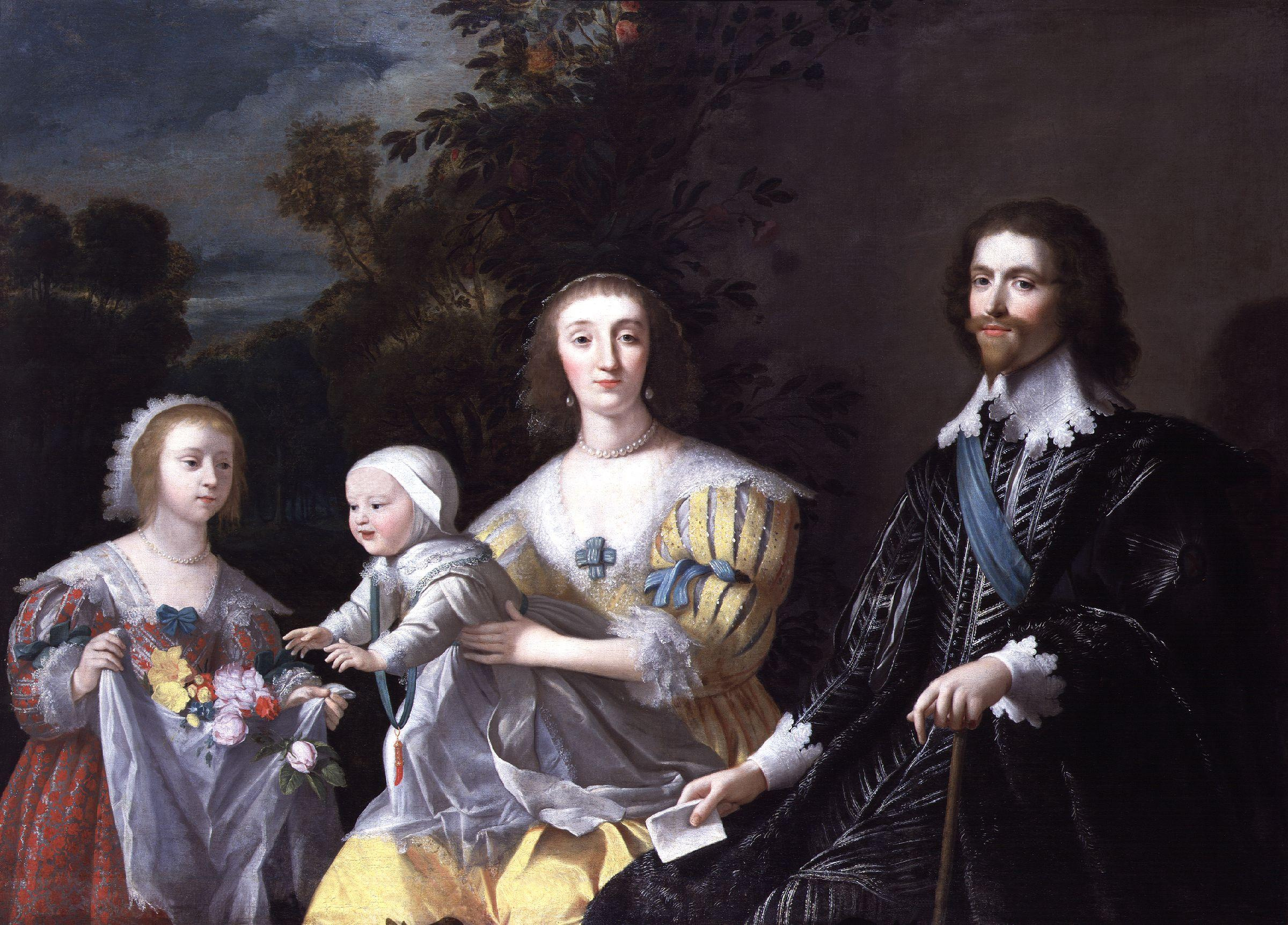 All images in this batch have been confirmed as author died before 1939 according to the official death date listed by the NPG.